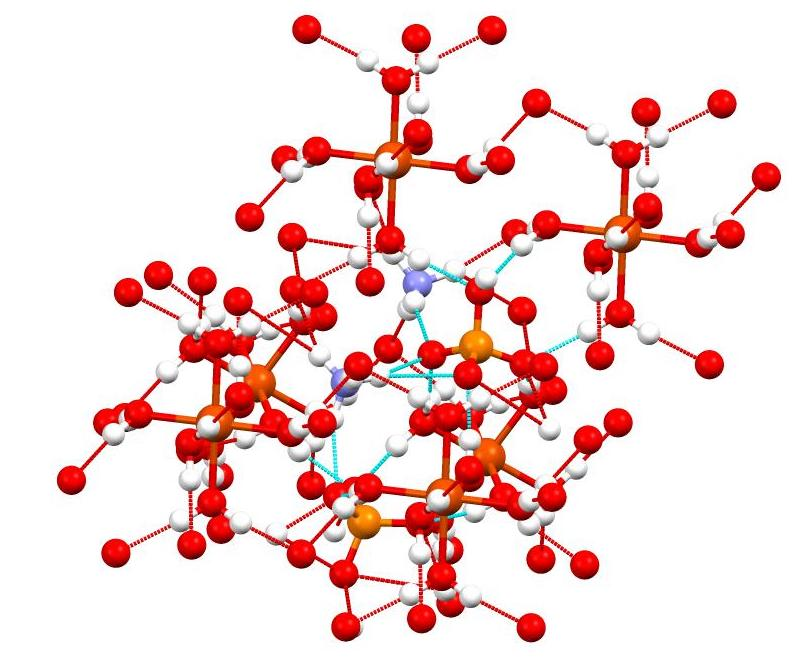 neutron structure of mohrite, highlighting H-bonding network